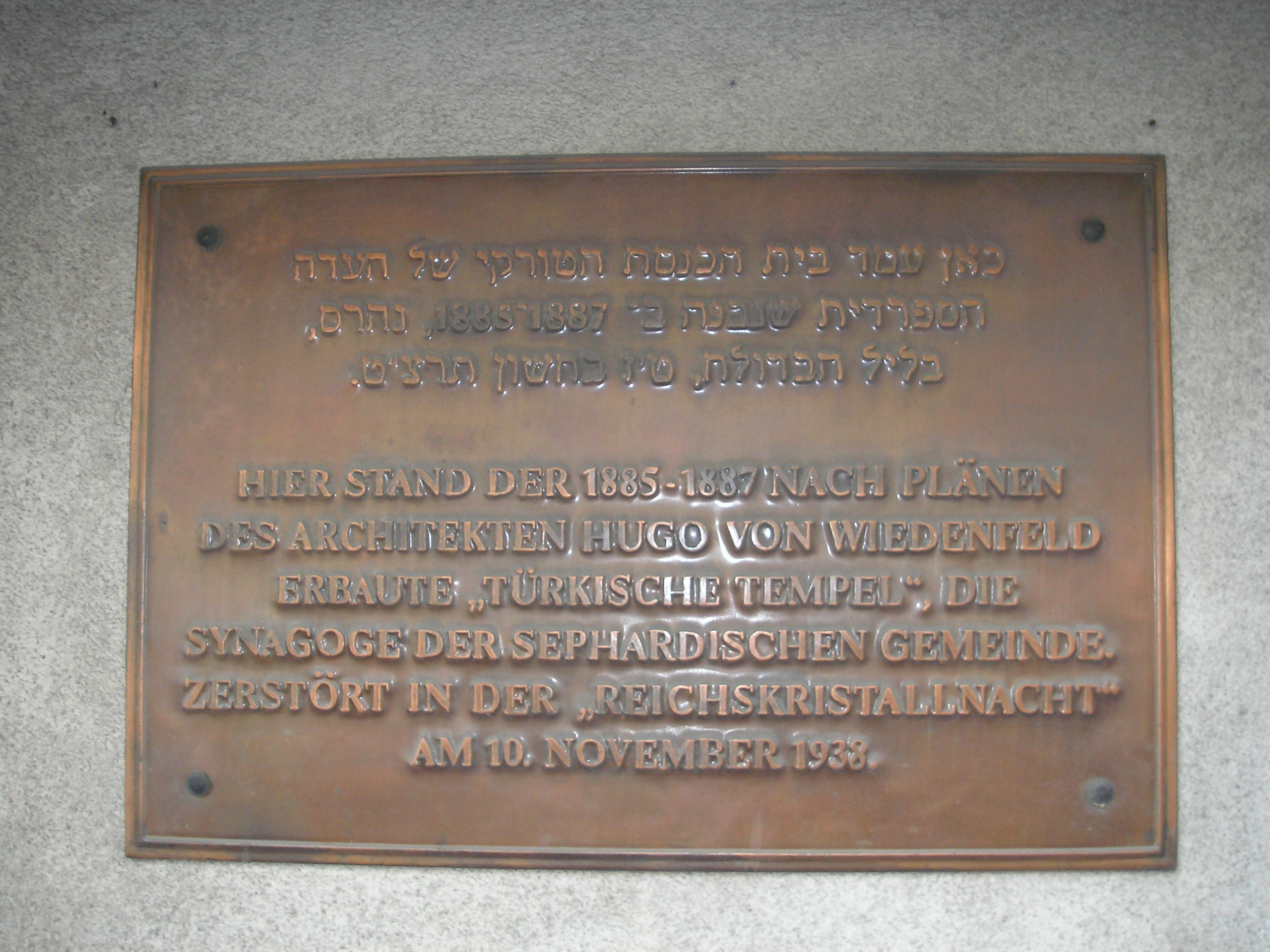 Memorial plaque for the destroyed synagoge "Türkischer Tempel" in Vienna, 2nd district, Zirkusgasse 22